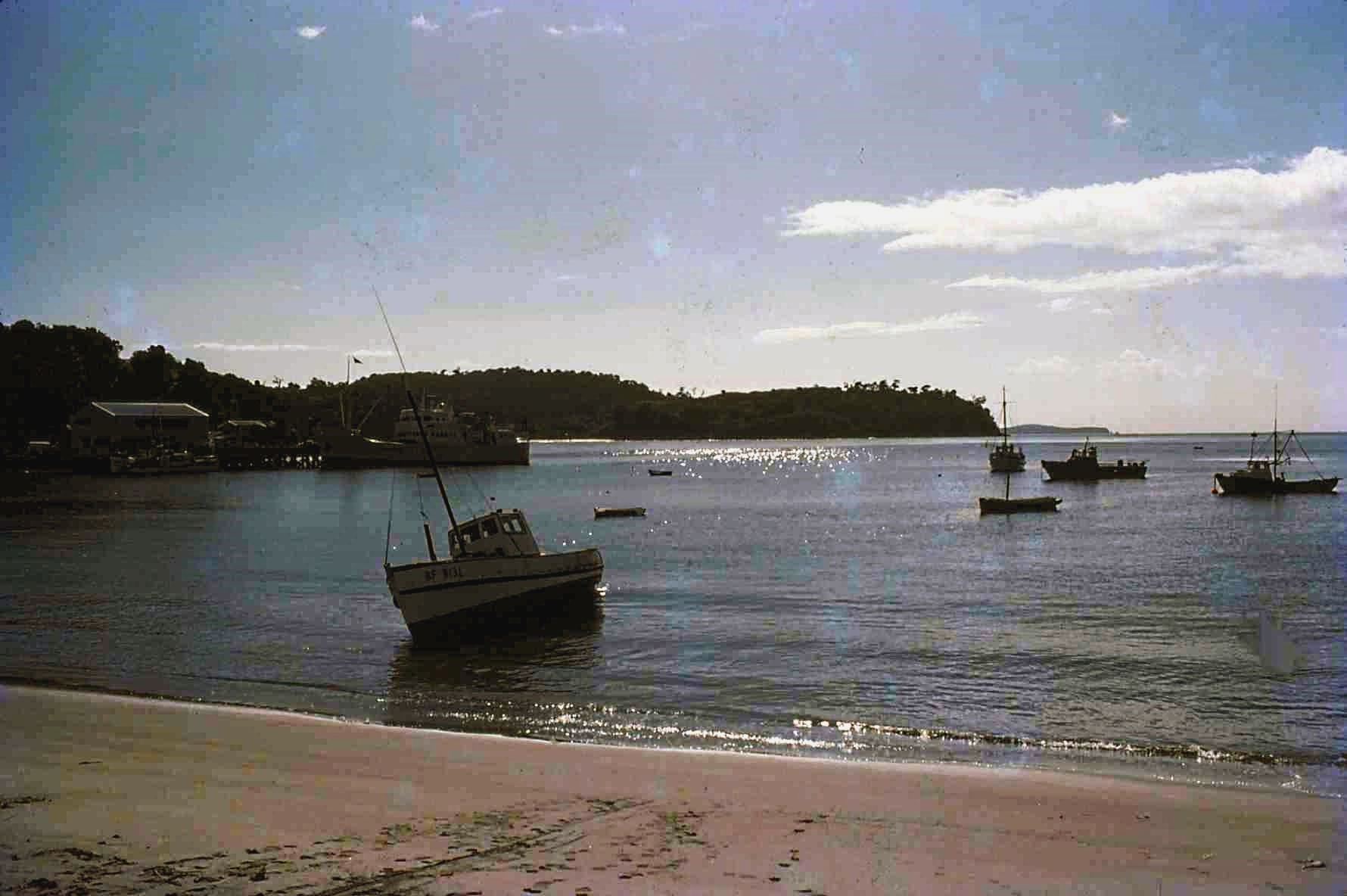 I took this visit when I was staying on Stewart Island in 1977.